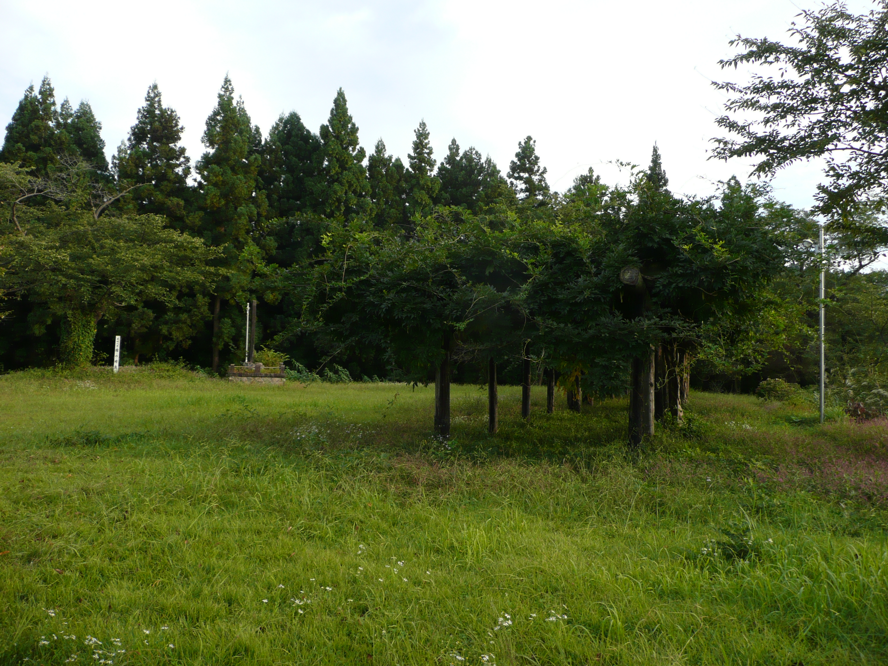 岩崎城の本丸